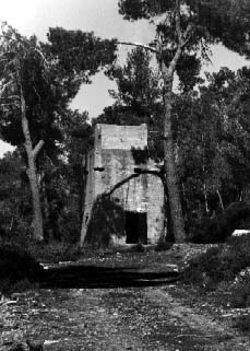 A Haganah detainment camp used during "The Hunting Season"